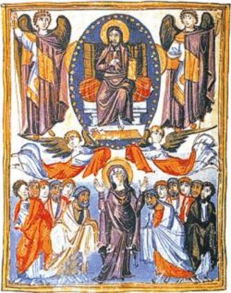 Venice, San Lazzaro, Mekhitarist Library, MS 1144/86, Queen Mlk'é Gospel, 851-862, Ascension, f.4.